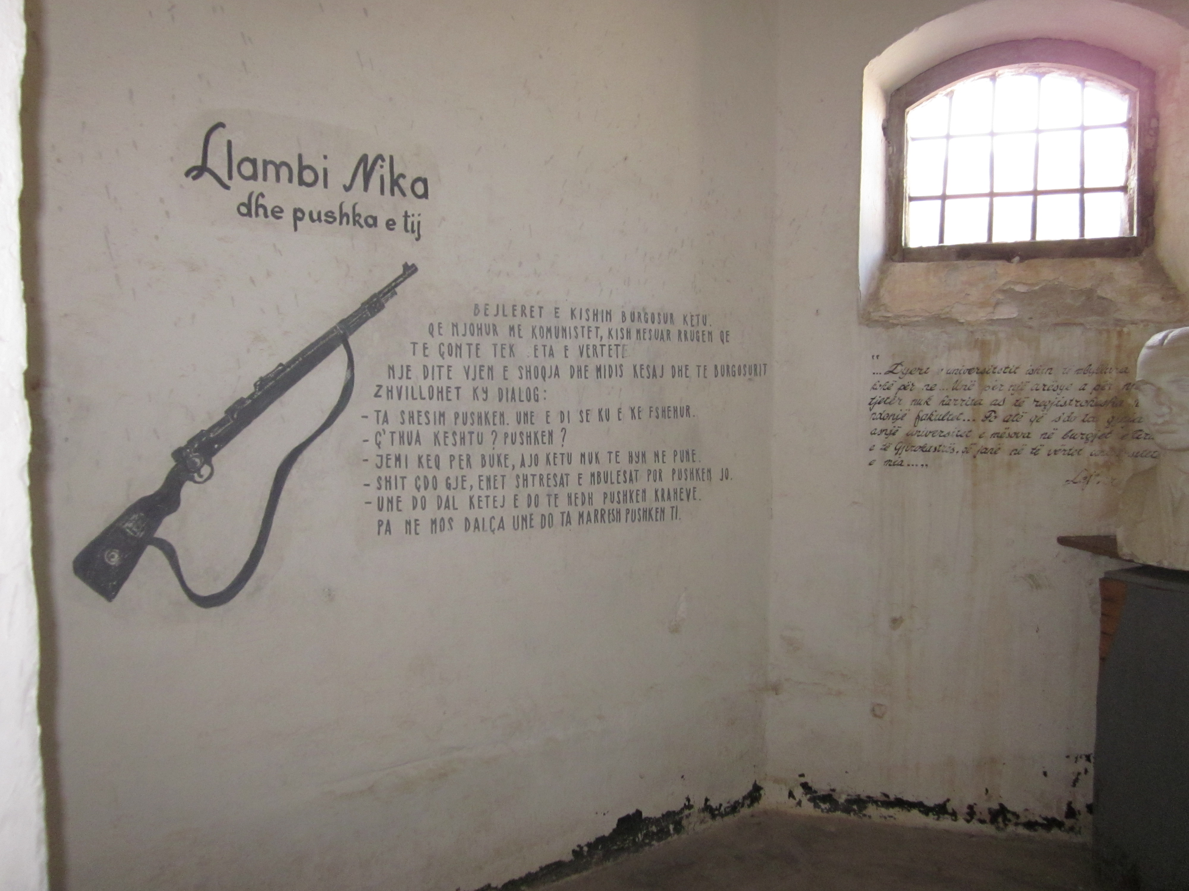 Texts on the walls are put there after the closing of the prison. They were taken from articles and newspapers on the harsh circumstances where the prisoners lived in, during their time in prison.